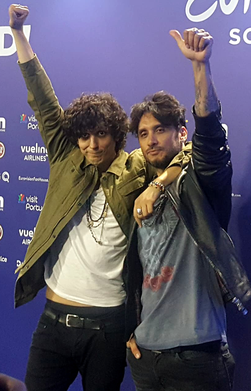 Italy singer Ermal Meta and Fabrizio Moro on May 2018.